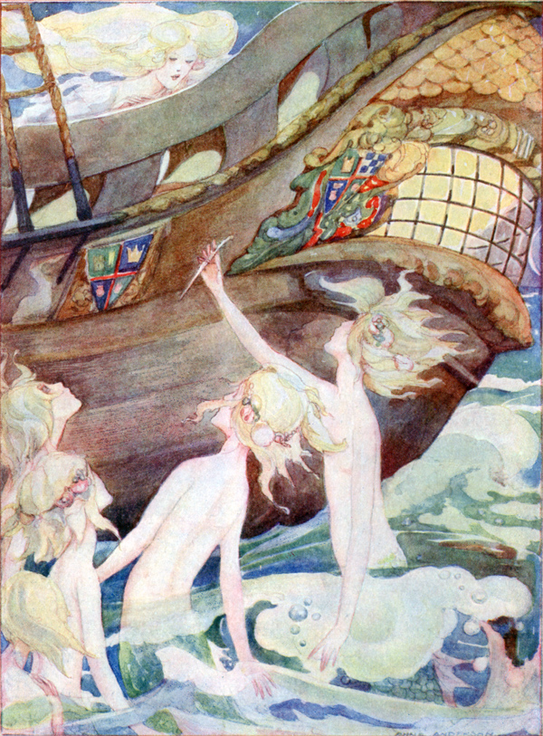 "The Little Mermaid's Sisters" - Anne Anderson. They sacrificed their hair to save her.